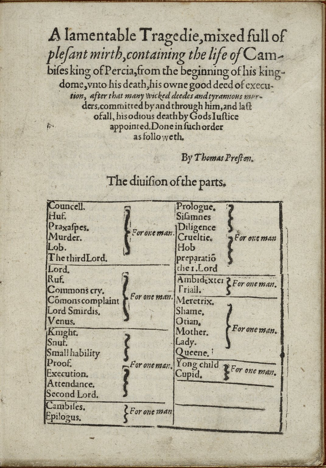 Title page of Thomas Preston's play, Cambyses, King of Persia (c. 1595).